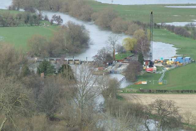 Days Lock Construction work at Days Lock. Taken from Wittenham clumps